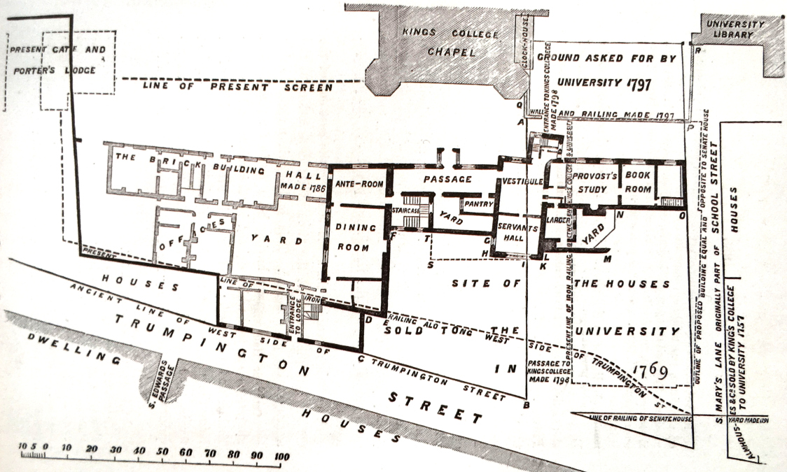 Ground Plan of Provost's Lodge, King's College Cambridge, detailing the buildings demolished during rebuilding by William Wilkins in the 1820s.